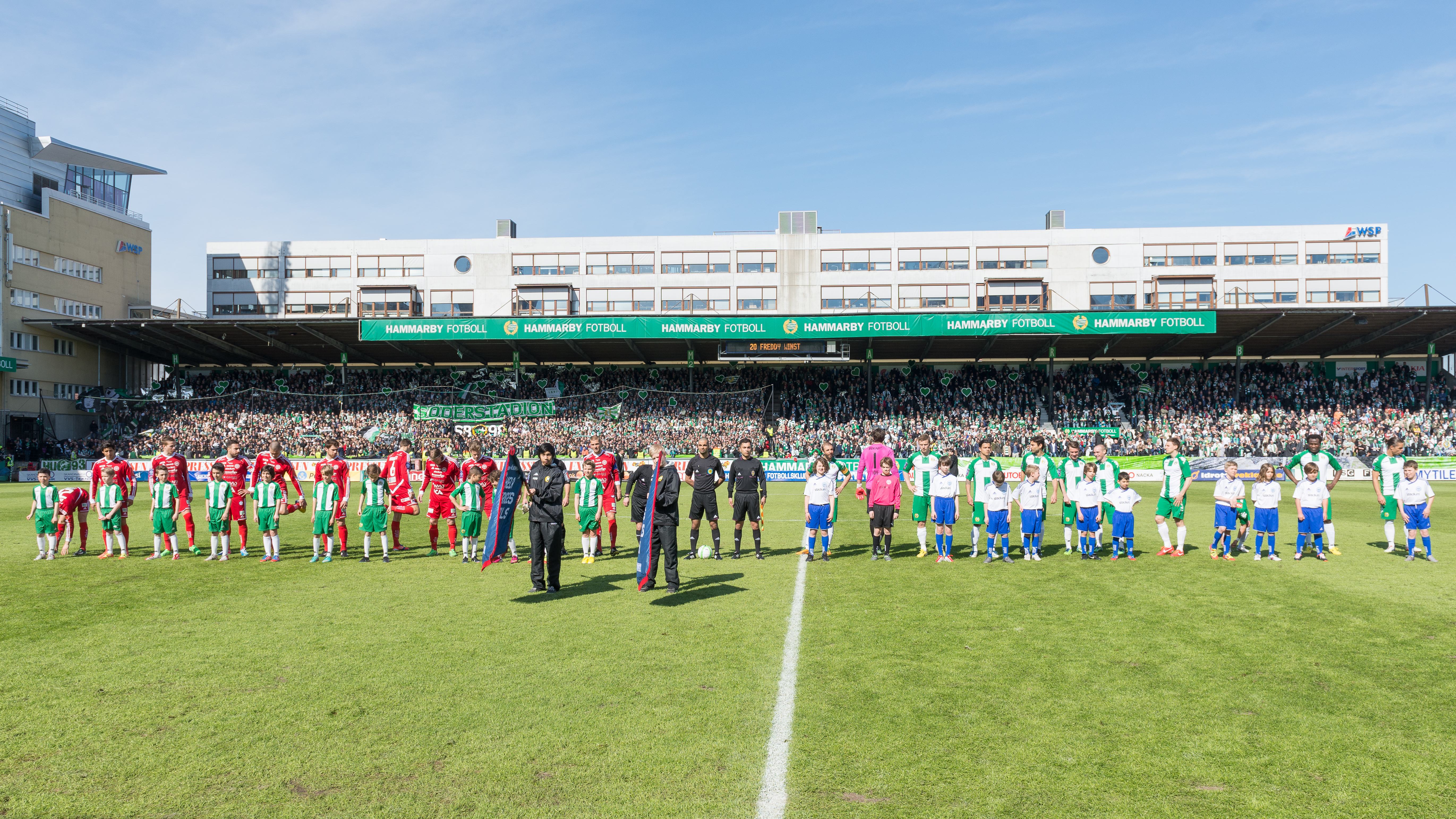 Hammarby IF vs IFK Värnamo, April 14, 2013.